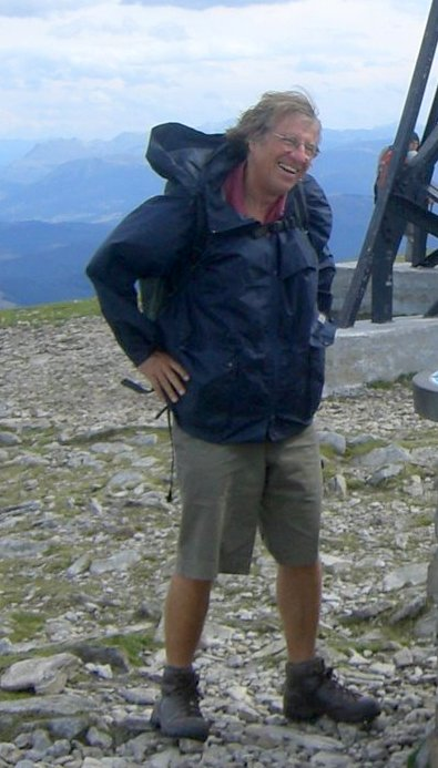 Volkmar Gessner on top of a mountain near Bilbao (Basque Country, Spain)